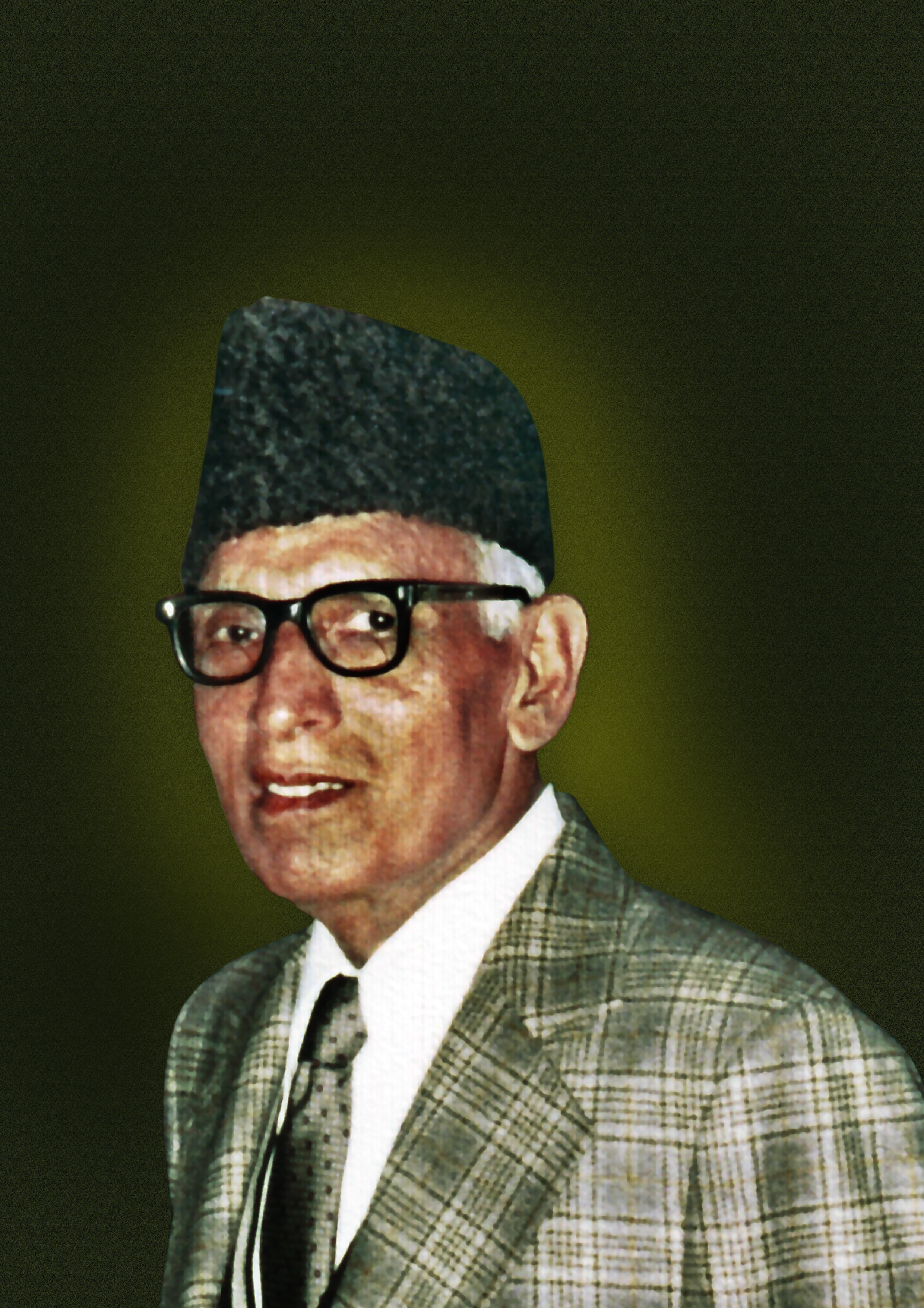 First published on the cover of the book - Zia Fatehabadi Hayat Aur Karname (Urdu)(Life and works of Zia Fatehabadi) by Dr. Shabbir Iqbal Ph.D. in the year 2013